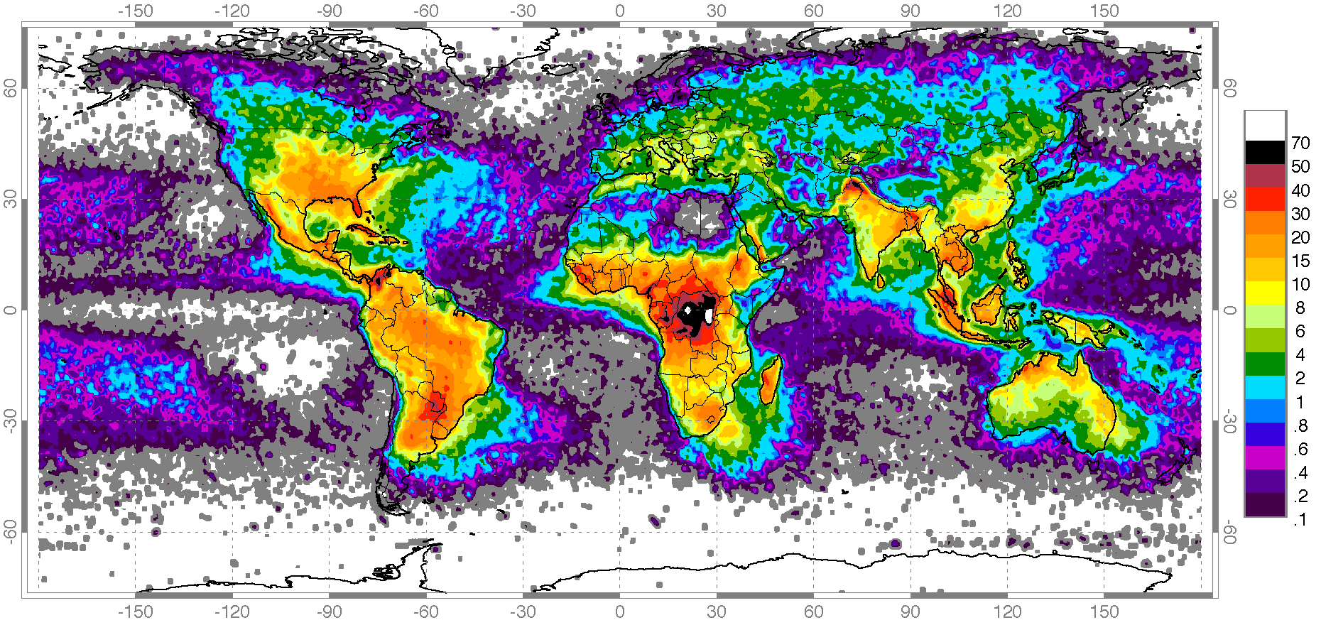 Data from space-based sensors reveal the uneven distribution of worldwide lightning strikes. Units: flashes/km2/yr.Data obtained from April 1995 to February 2003 from NASA's Optical Transient Detector and from January 1998 to February 2003 from NASA's Lightning Imaging Sensor.